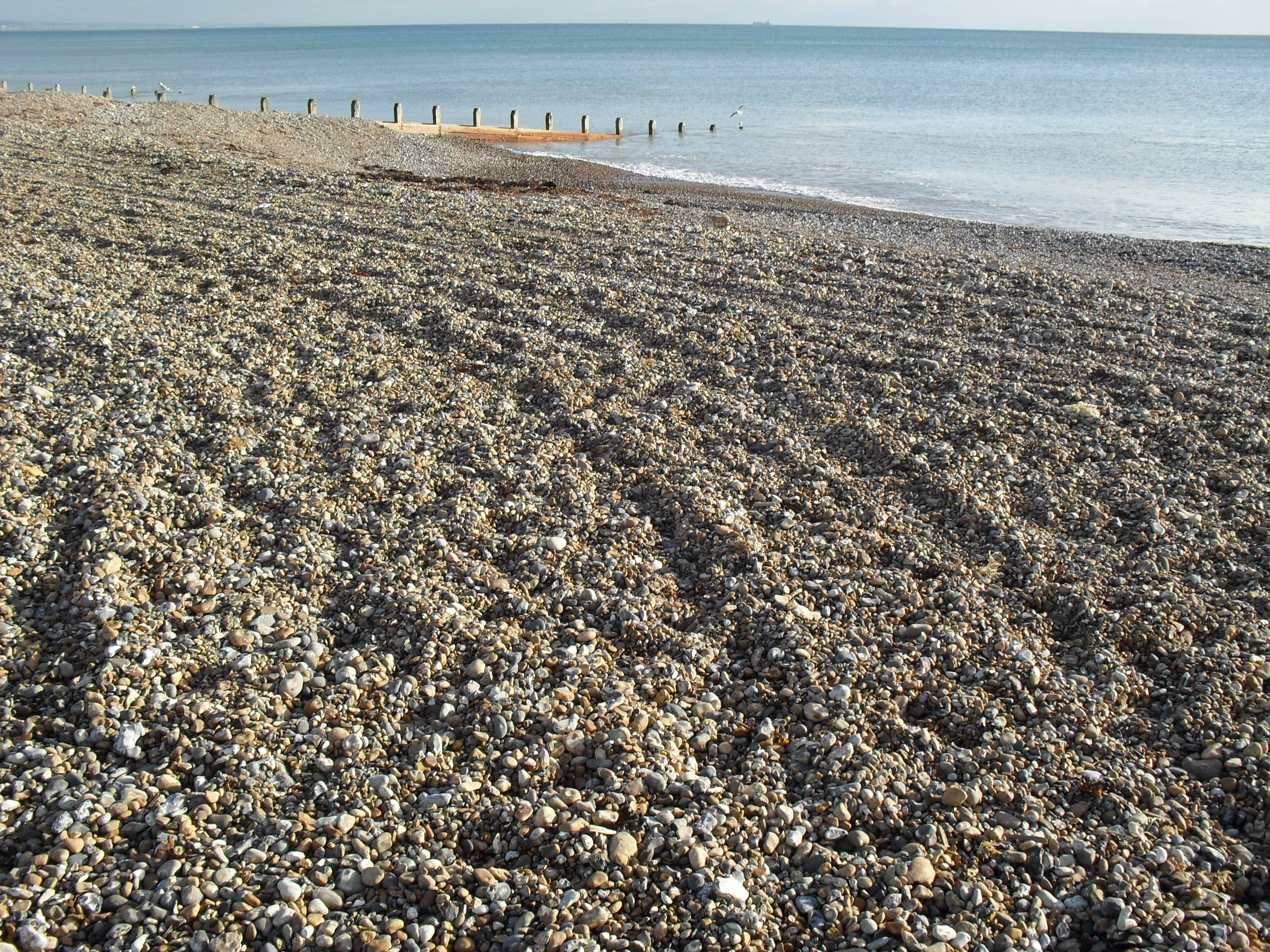 The beach at Worthing, West Sussex, England, showing the coarse Coombe Rock shingle and a timber groyne.